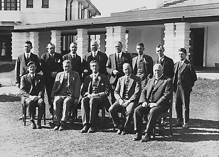 The presentation of the Charter of the Canberra Rotary Club, 1928, at the Hotel Canberra. Pictured are the inaugural President, Sir Robert Garran (seated, front centre) and other members, including Sir John Butters and Charles Daley (their location in the picture is not known).